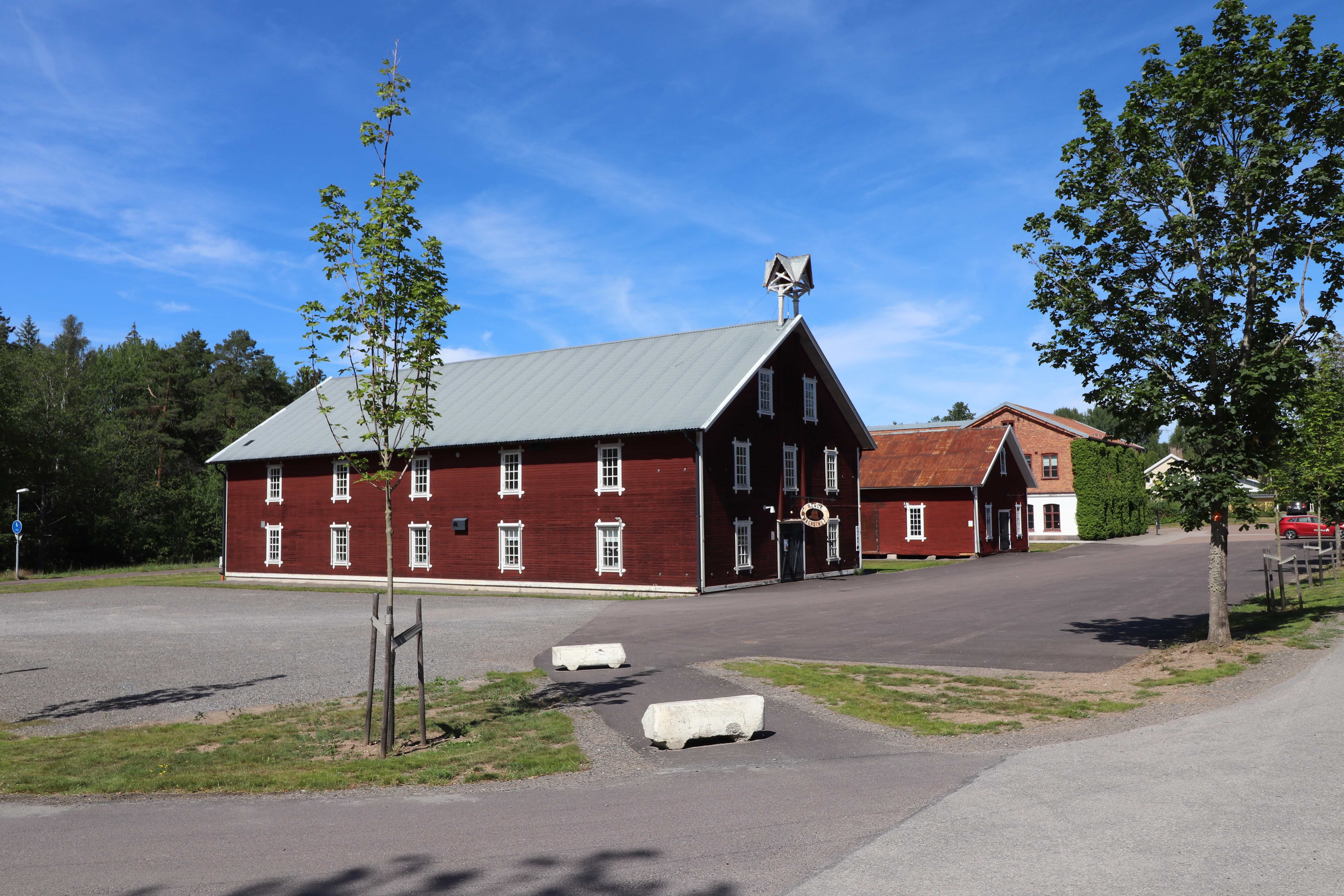 The clock magazine at Pukeberg's glassworks.In the building there is the National Glass School, which is a school for glass manufacturing.